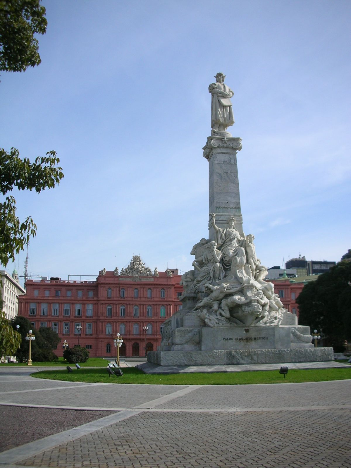 Parque Colón and the Monument to Columbus (Colón), created by Italian sculptor Arnaldo Zocchi (1862–1940) and unveiled in 1921. The Casa Rosada is visible in the background.